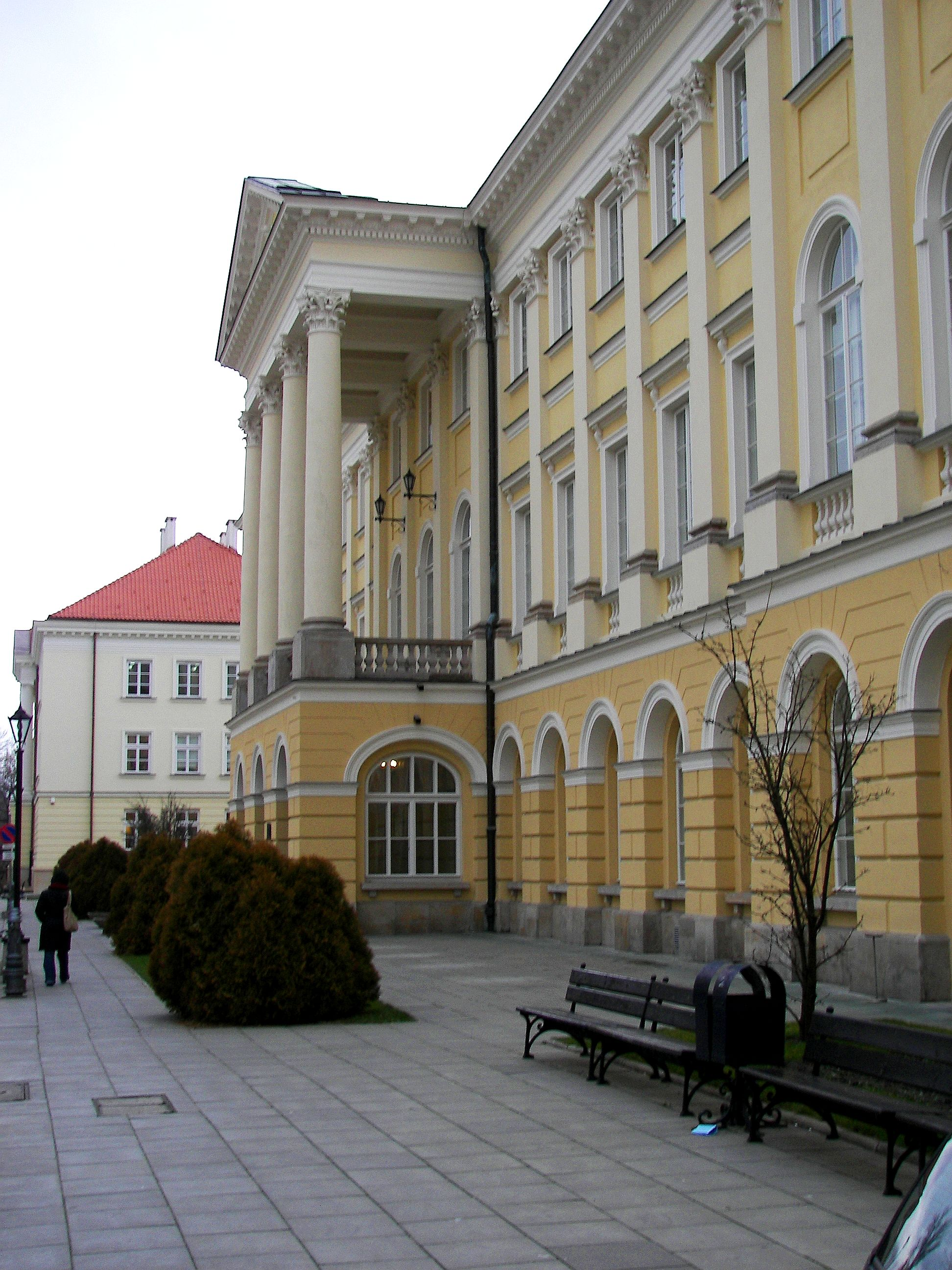 Warsaw University Main Campus, Poland